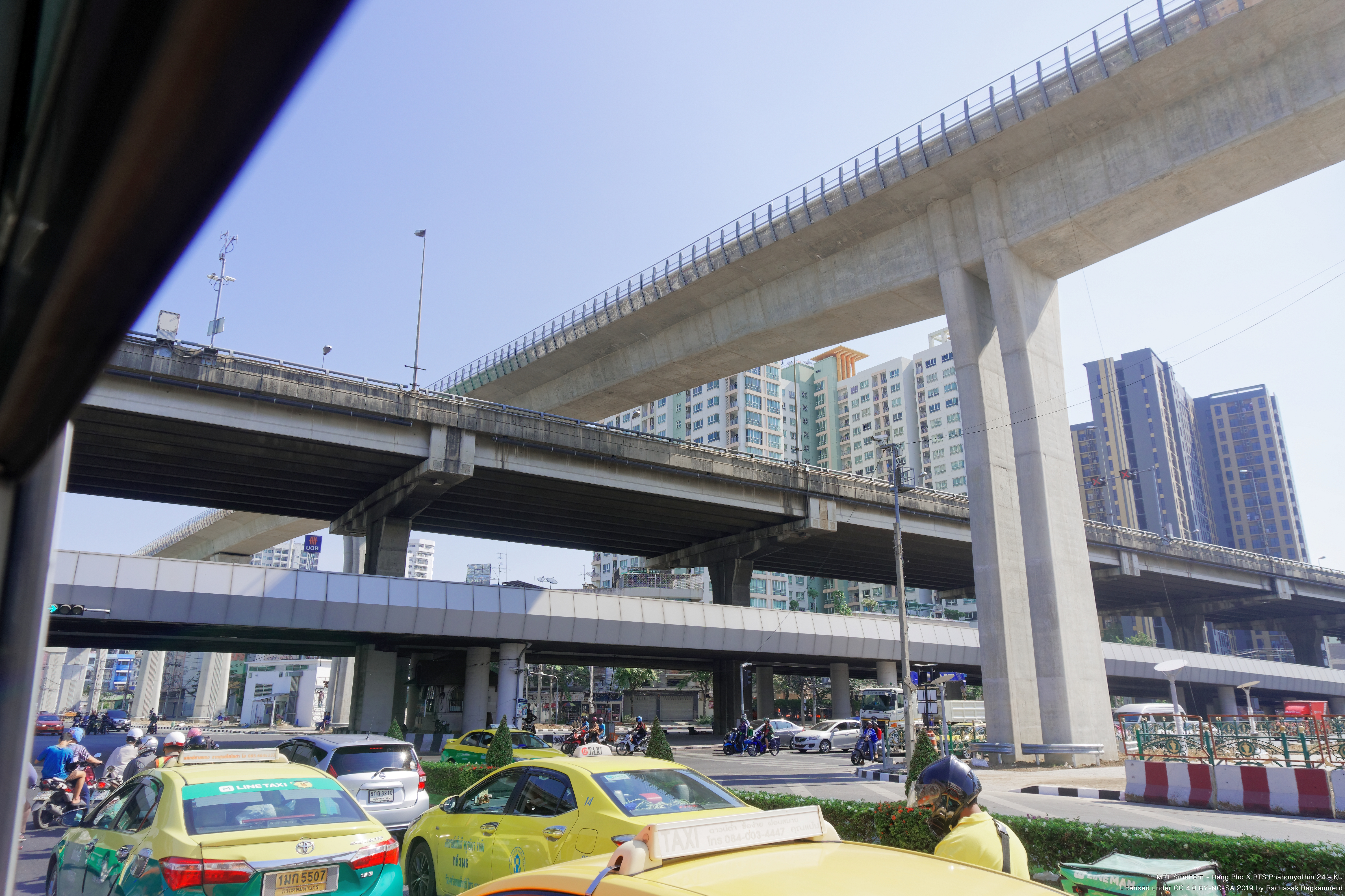 MRT Bang Yii Khan - Baromratchachonnanee intersection overpass closeup